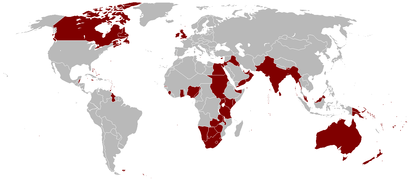 A map of the British Empire in 1921 when it was at its height, just before the Anglo-Irish Treaty of 1921. (But 1921-1937 Ireland continued to have the same status as Canada, Newfoundland, the South African Union, Australia and New Zealand, that is to be part of the British Empire as a dominion)